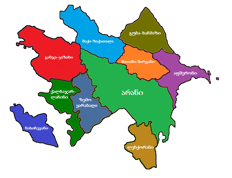 Azerbaijan economic regions on Georgian.